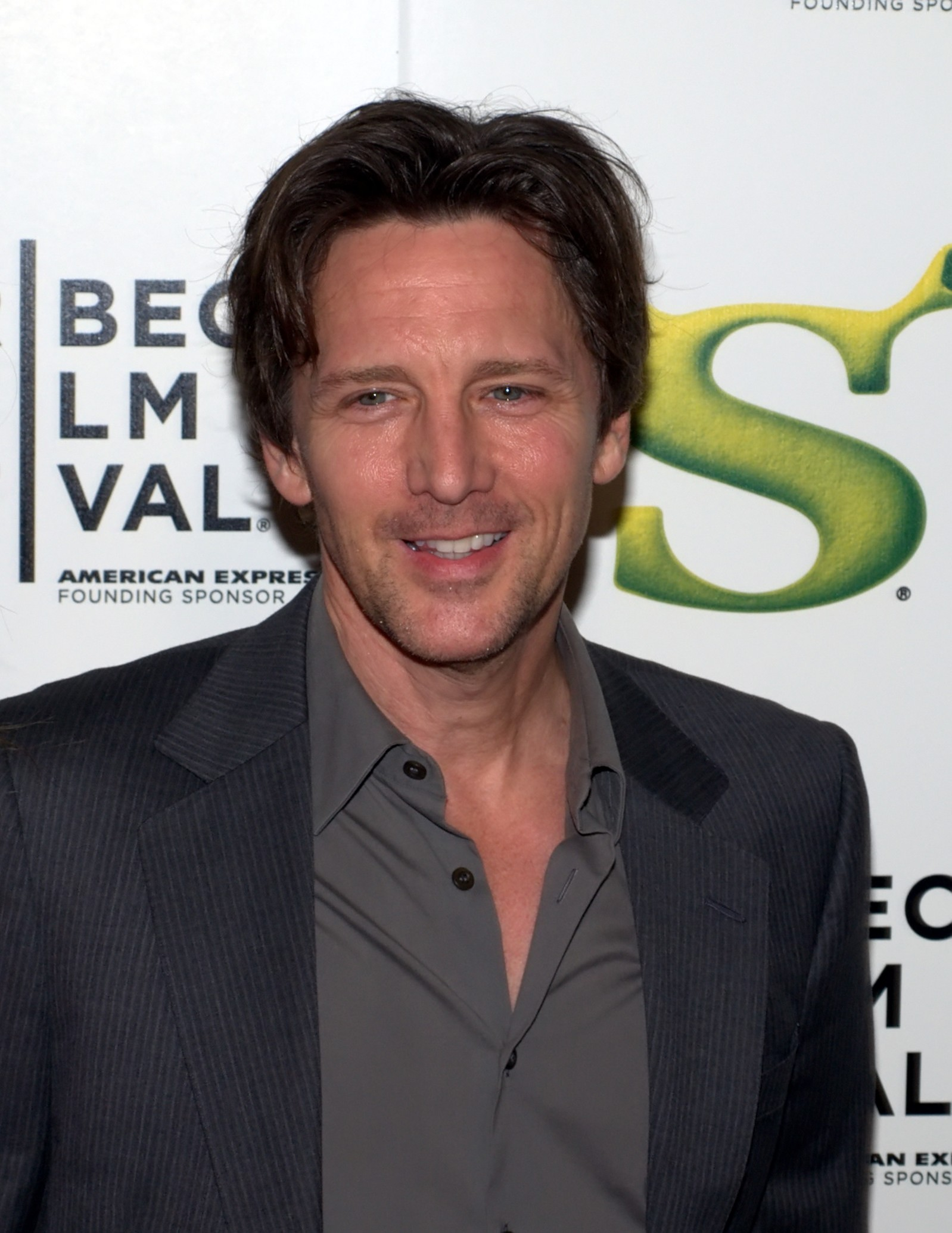 Andrew McCarthy at the 2010 Tribeca Film Festival.